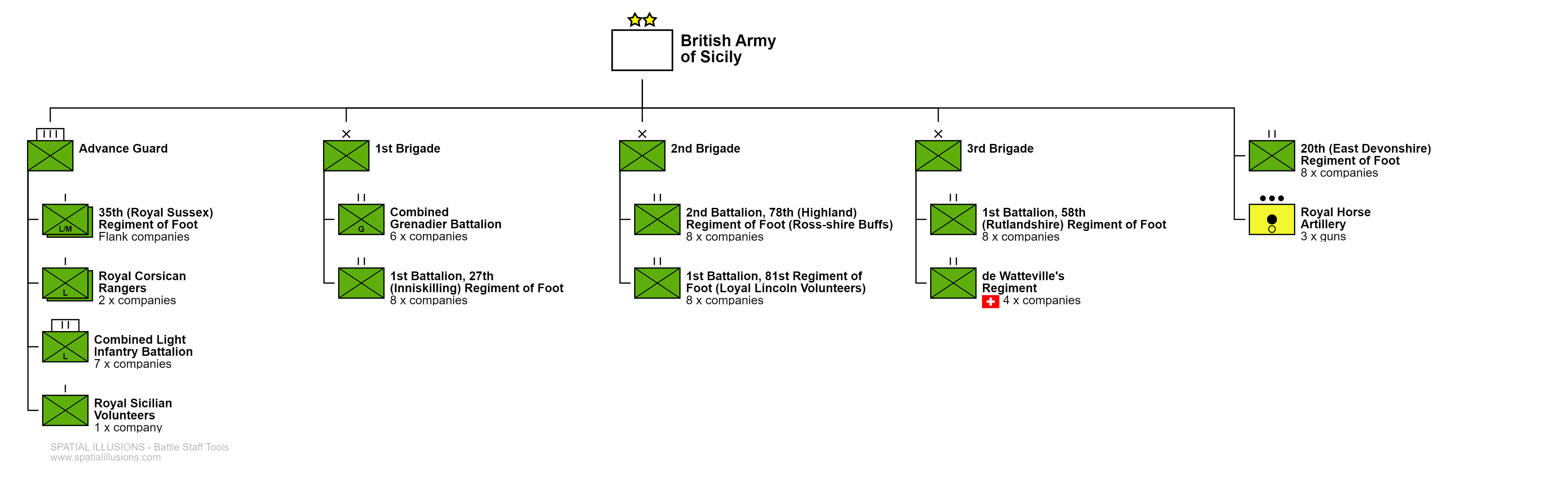 British Army Order of Battle (Battle of Maida)